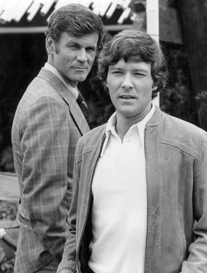 Photo of Don Murray (left) and Michael Anderson, Jr. from the television series Police Story.